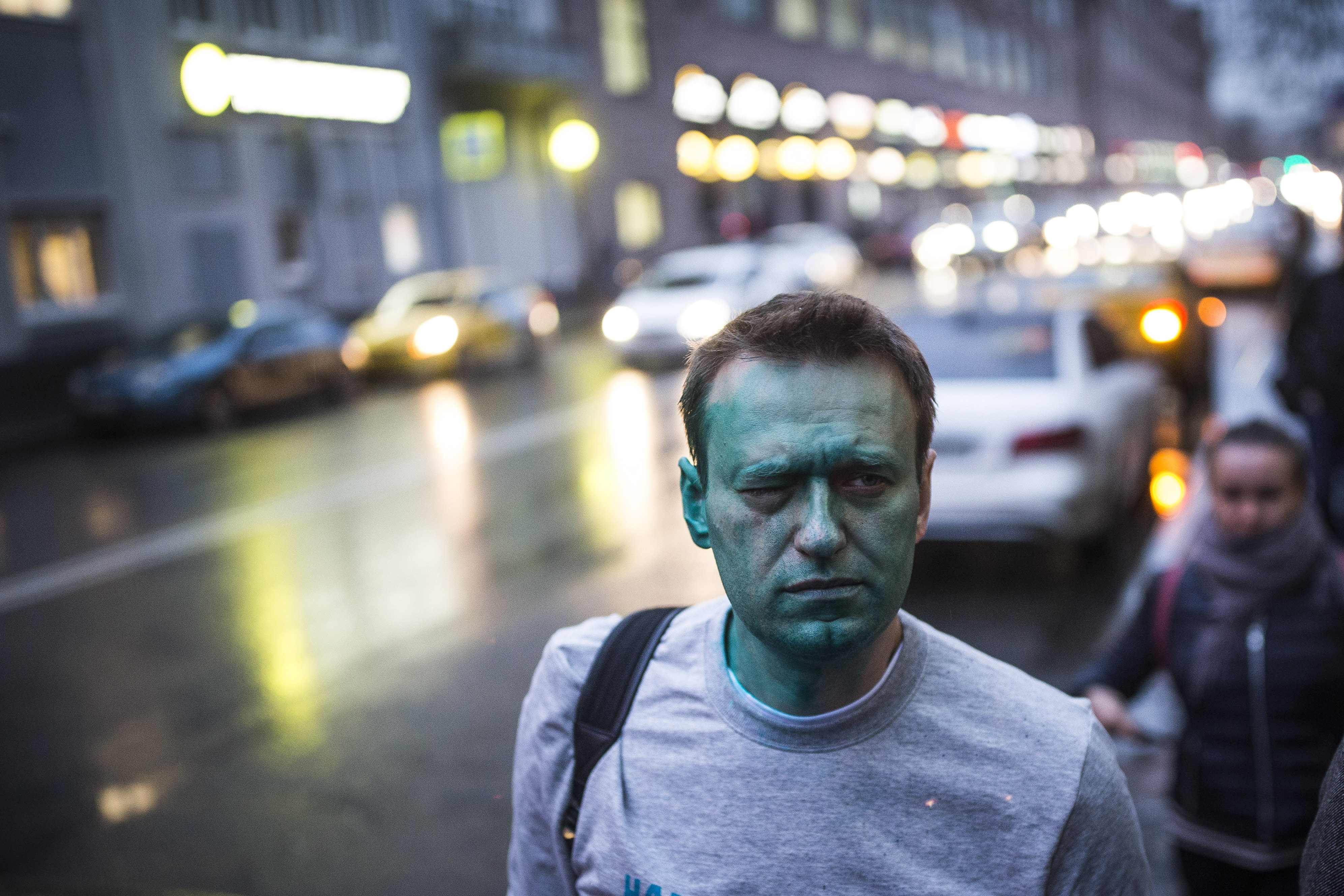 Alexei Navalny, Russian opposition leader, is pictured on a street after zelyonka attack in Moscow